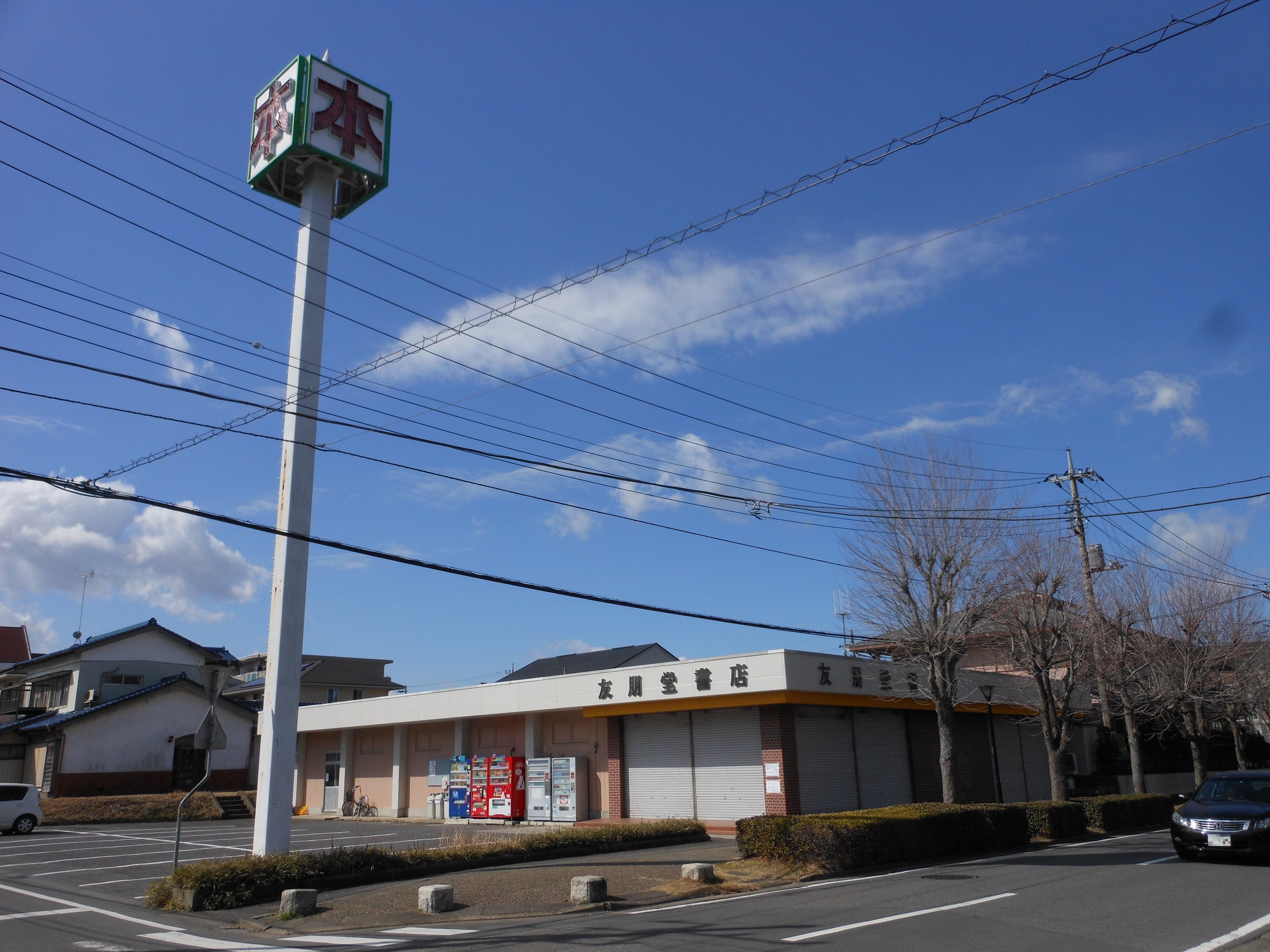 This is the head office of Yuhodo Shoten in Tsukuba, Ibaraki, Japan. This building was used for the bookstore "Yuhodo shoten Azuma Shop".